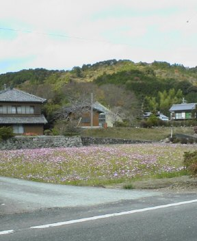 This is a photo of Hiyama,Isobe Town,Shima City,Japan.